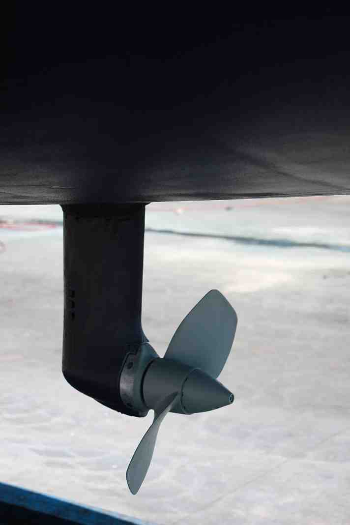 Volvo Saildrive on a Bavaria 36 Cruiser